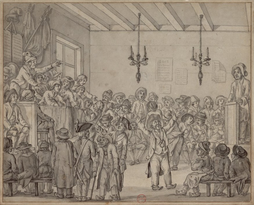 In a small room with two five branches wall mural and a large window there is a meeting. The audience consists of an assembly of men. All have pants with clogs. Some wear a tricorn hat with a cockade, others phrygian cap and most an ordinnary hat. There are two galleries in height on either side of the upright assembly. One allows small group to lead the discussion. Some members apostrophe. The other is occupied by a single citizen who figure accused.